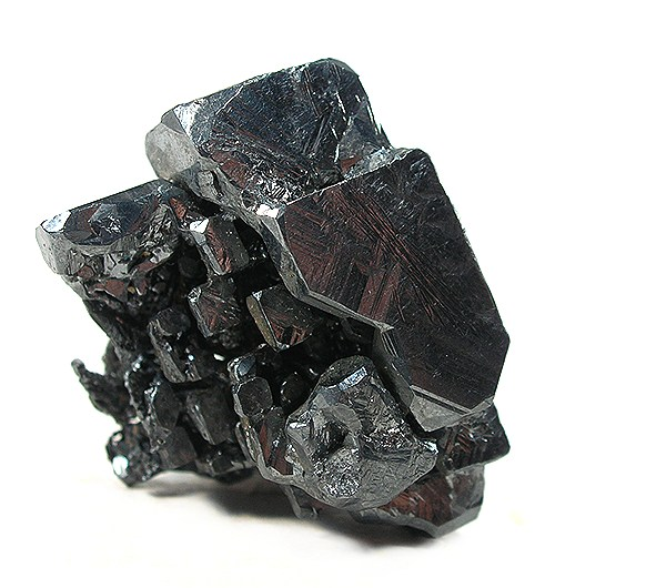 Acanthite, Argentite Locality: Mina San Juan de Rayas, Guanajuato, Mexico Size: miniature, 3 x 2.75 x 1.8 cm Acanthite ps. Argentite As the fact that the piece has been so frequently illustrated attests to, it is super-fine. The sharpness and size of these crystals, combined with phenomenal lustre, make it one of the best miniatures for the species and locality. Hands down. It was a personal gift from Dr. Miguel Romero, the noted Mexican collector, to Fred Pough. It was later sold by Pough, after Romero passed away, to California dealer Cal Graeber who resold it to collector Irv Brown in the 1990's. It is the only piece I have ever seen for sale with an actual label from Romero, in his hand (written on the back of his business card in black ink, with Spanish spellings of the species and locality). 3 x 2.75 x 1.8 cm